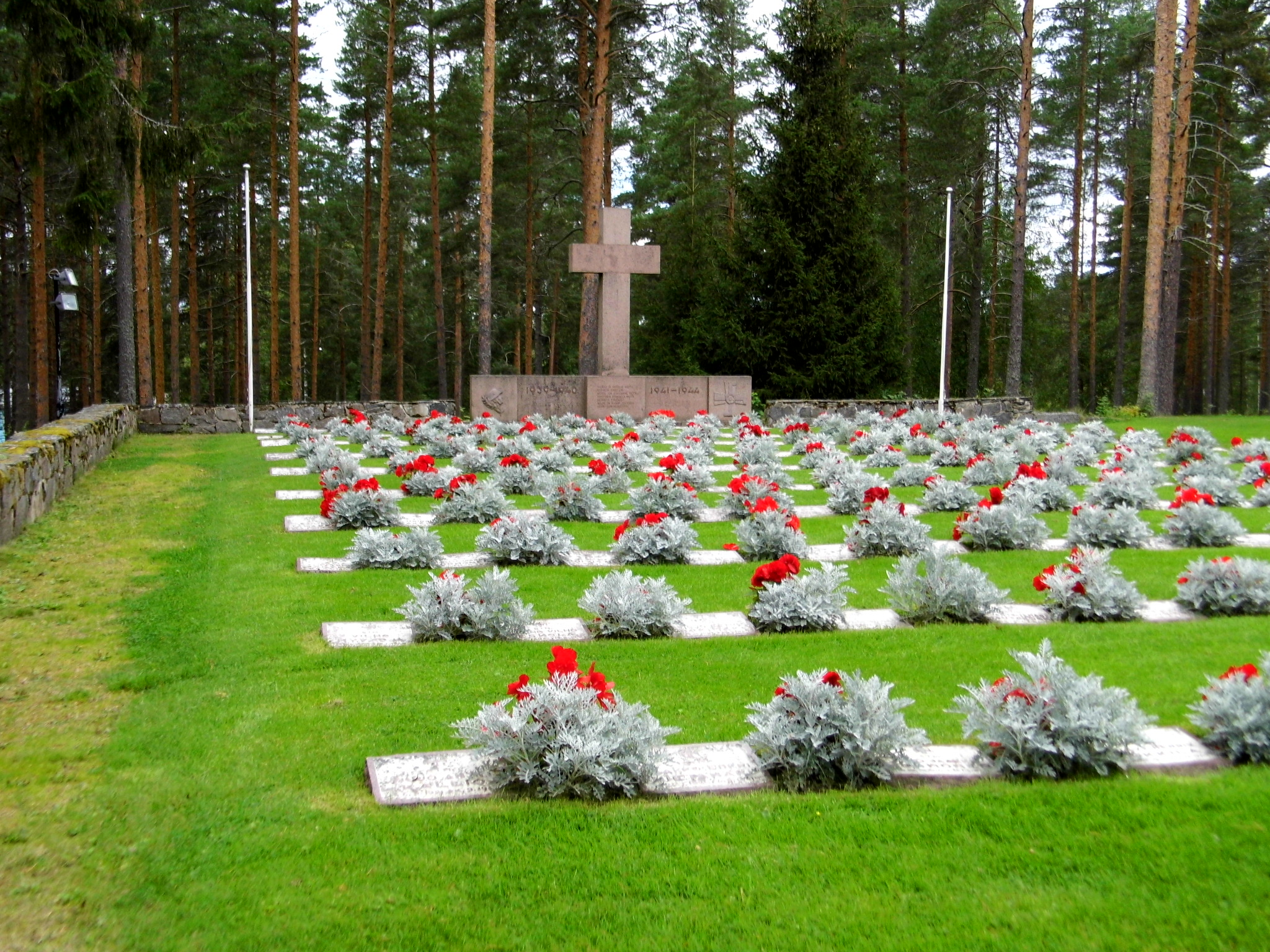 Military cemetary at church in Sievi, Finland